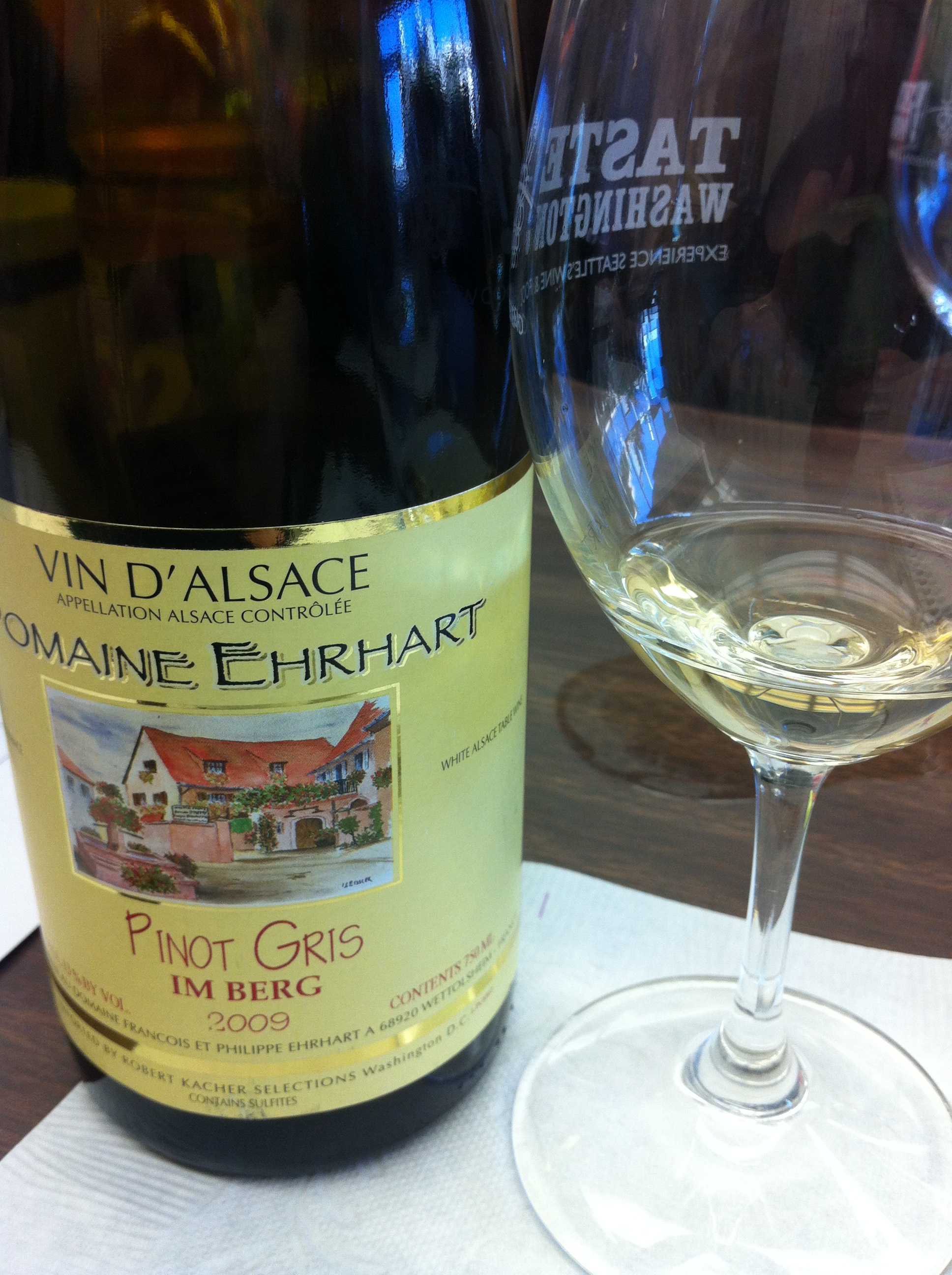 French Pinot gris from Alsace